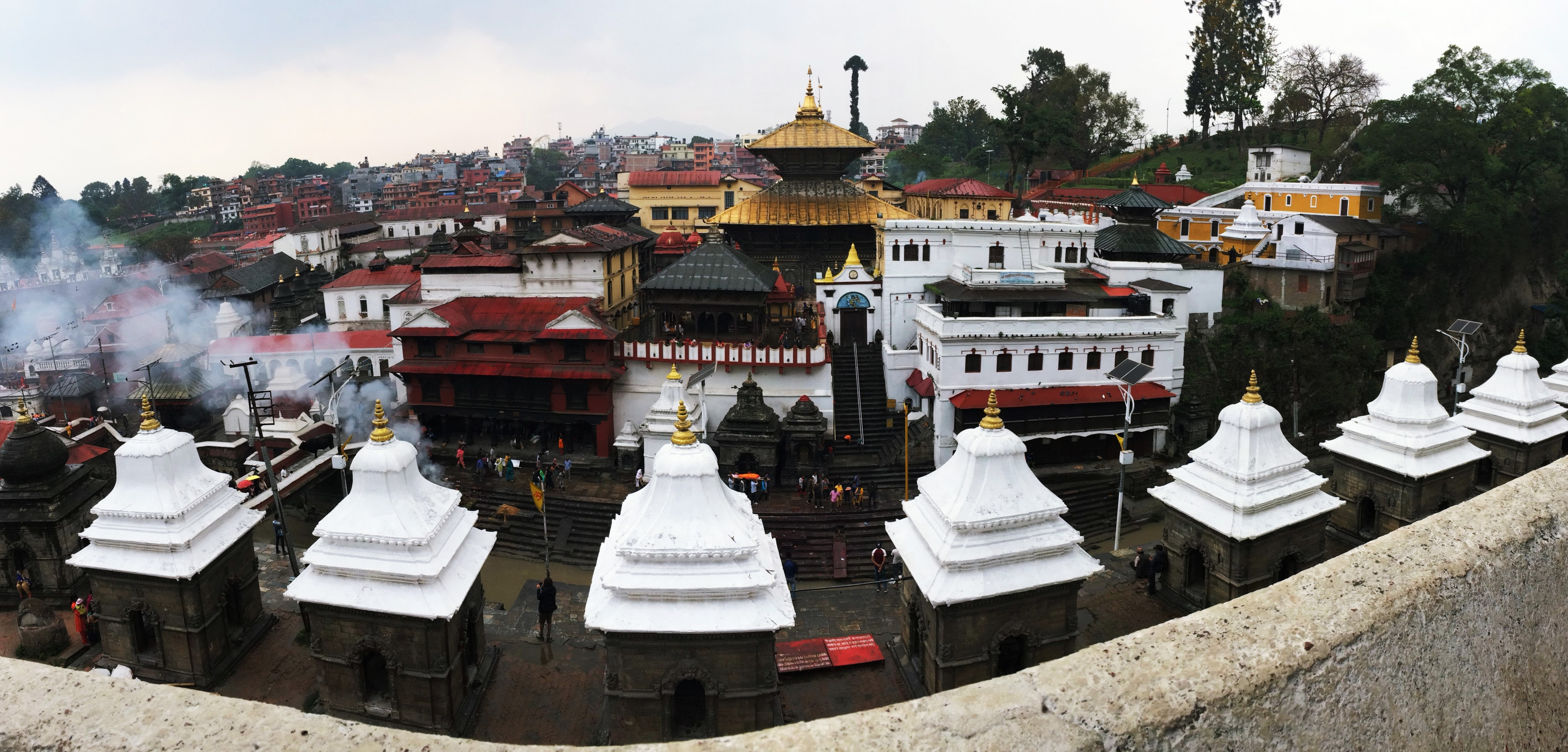 Pashupatinath temple from across the river as a dead body is being cremated.